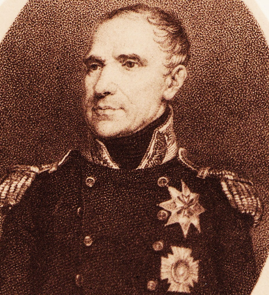 Van de Capellen